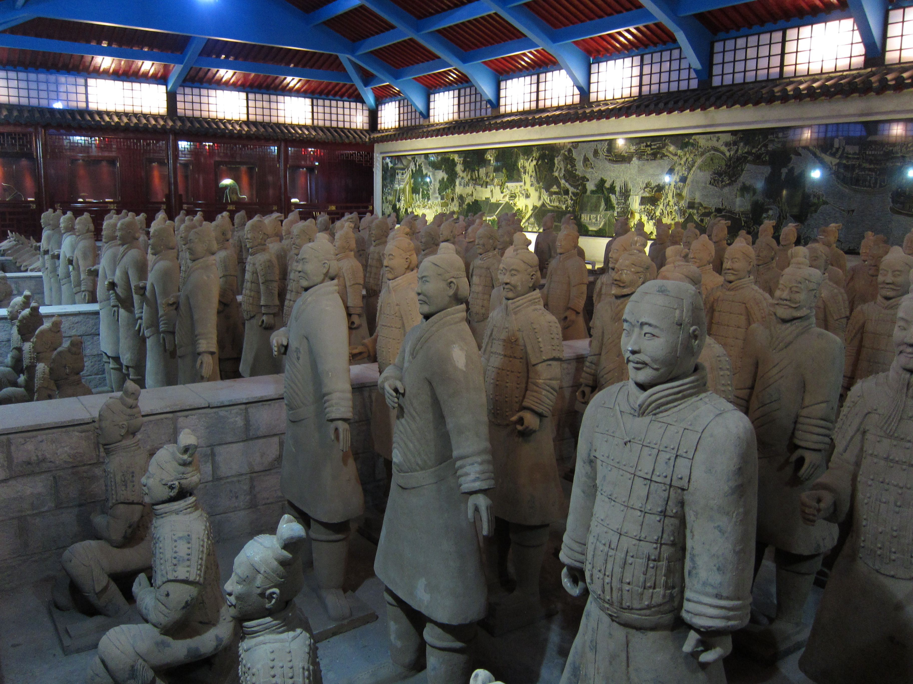 Terrecotta army replicas at the Dragon gate facility, near Gävle, Sweden.